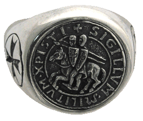 Finger ring with a Knights Templar Seal.